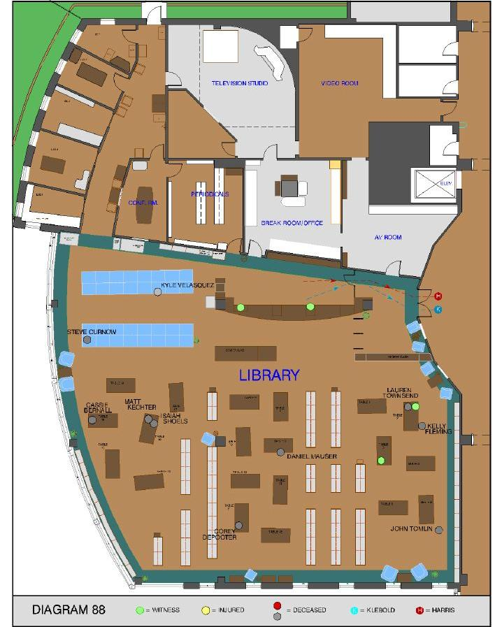 One of the diagrams made by FBI's Investigative and Prosecutive Graphic Unit after the Columbine High School Massacre. Harris (red dot) and Klebold (blue dot) are shown leaving the school's library; green dots indicate witnesses of the event.